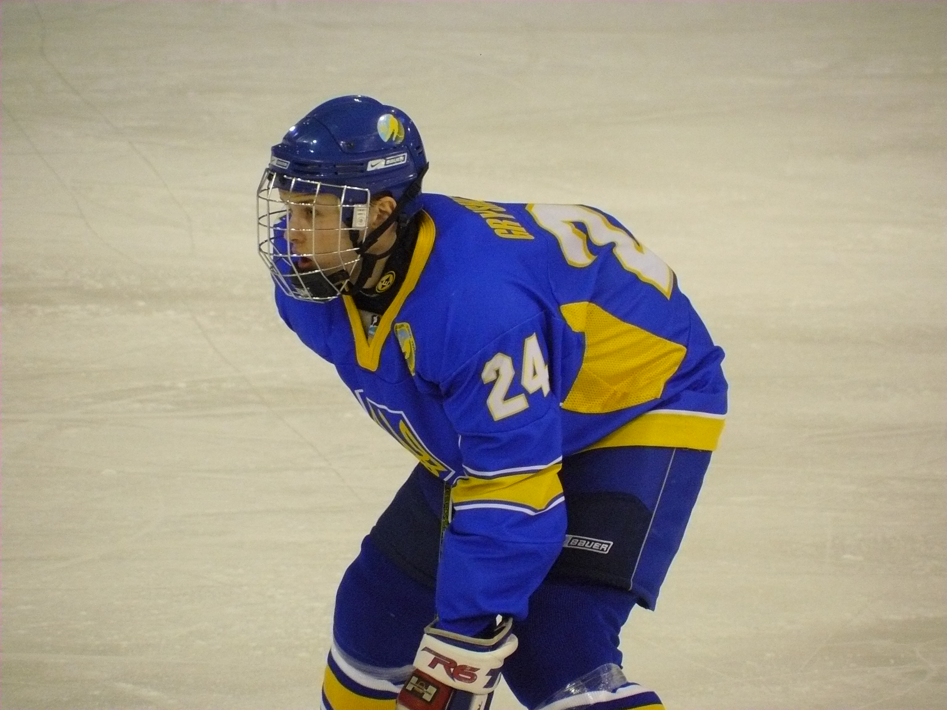 Defender Roman Hryshchenko #24 of the Ukraine during the 2010 IIHF World U18 Championships Division II Group B game against the Belgium on 22 March 2010 at the Terminal Arena in Brovary, Ukraine. Ukraine won the game 8:0.